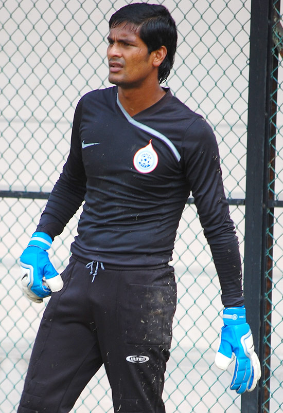 Subrata Pal (Courtesy )